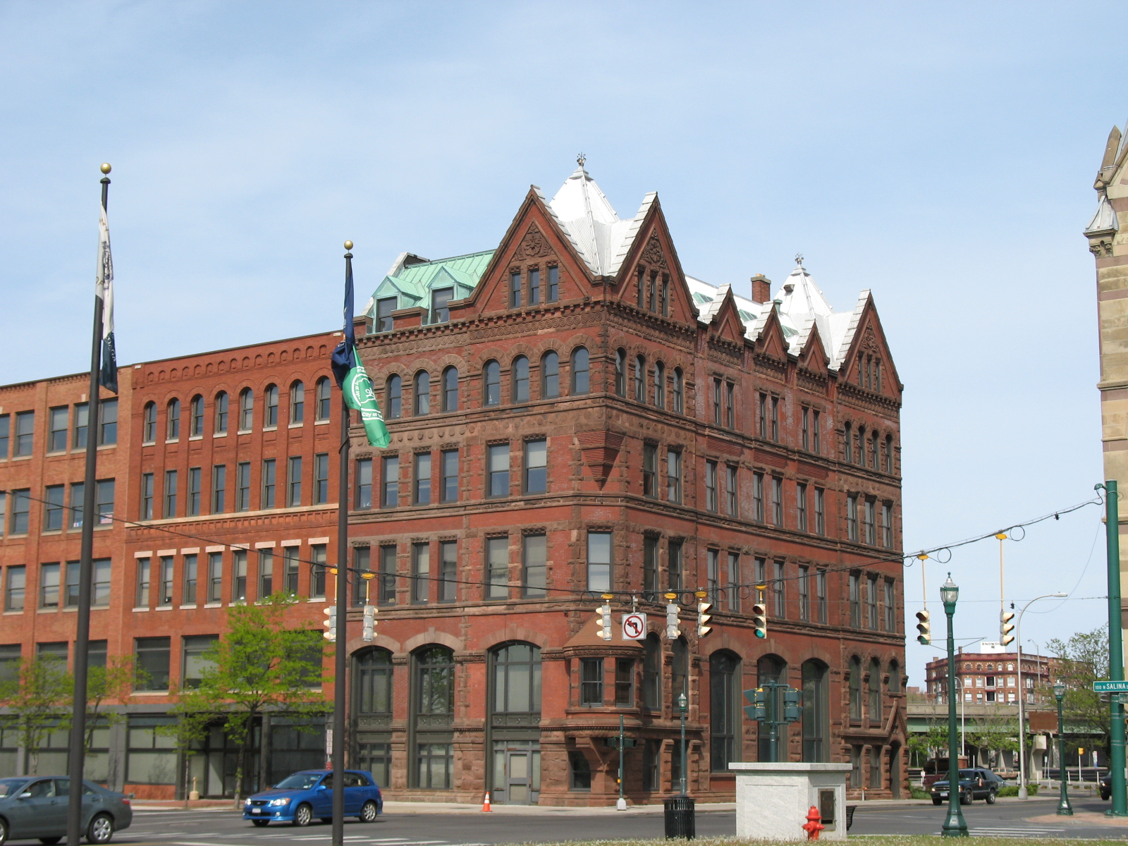 Picture I took of the Third National Bank while walking through Syracuse.